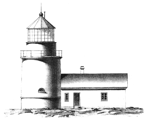 The old lighthouse (after reconstruction 1843) at Kullen, Sweden